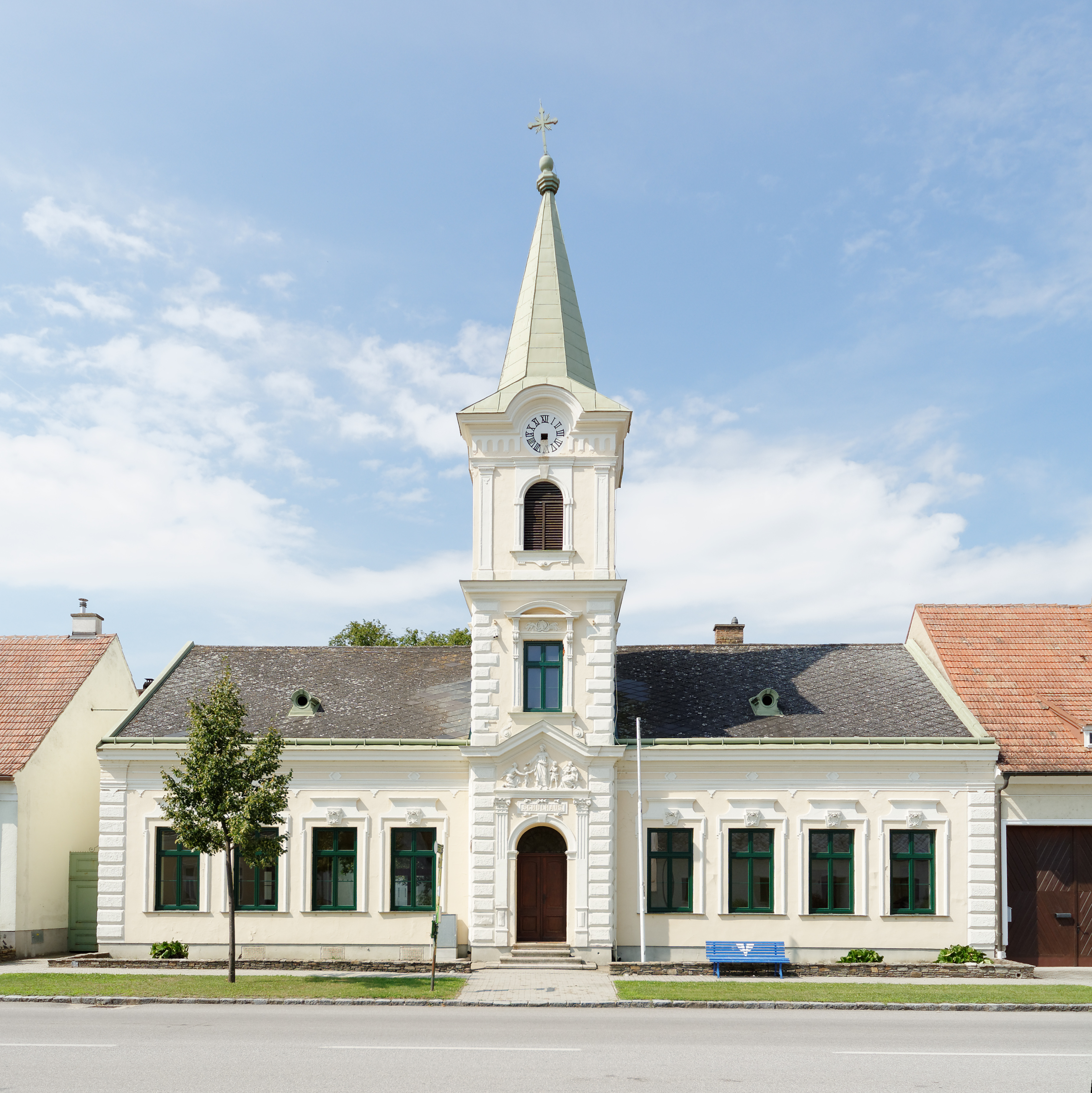 Former school in Baumgarten an der March, Municipality Weiden an der March, Lower Austria, Austria